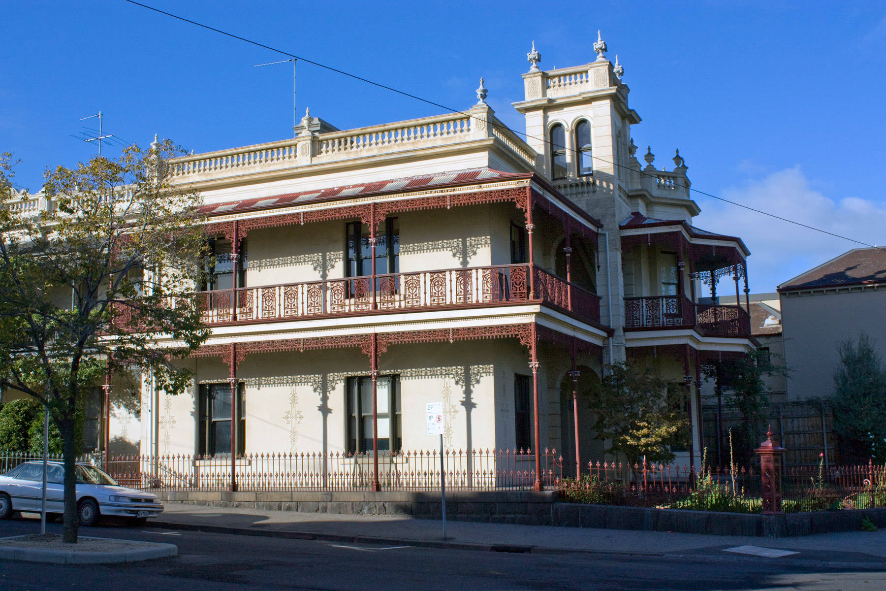 "Wardlow", Parkville, Victoria Australia